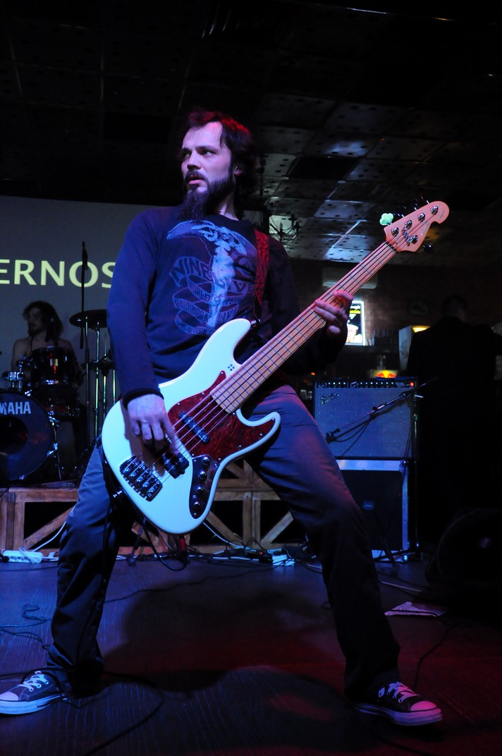 Victor Coșparmac